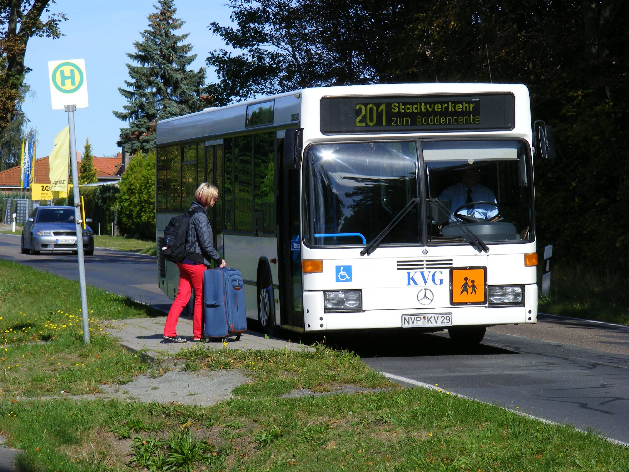 KVG 201 service running between Damgarten terminus and Ribnitz Bddencenter. NVP KV 29 is showing a school bus plate . That large suitcase will cost the woman an extra 50c